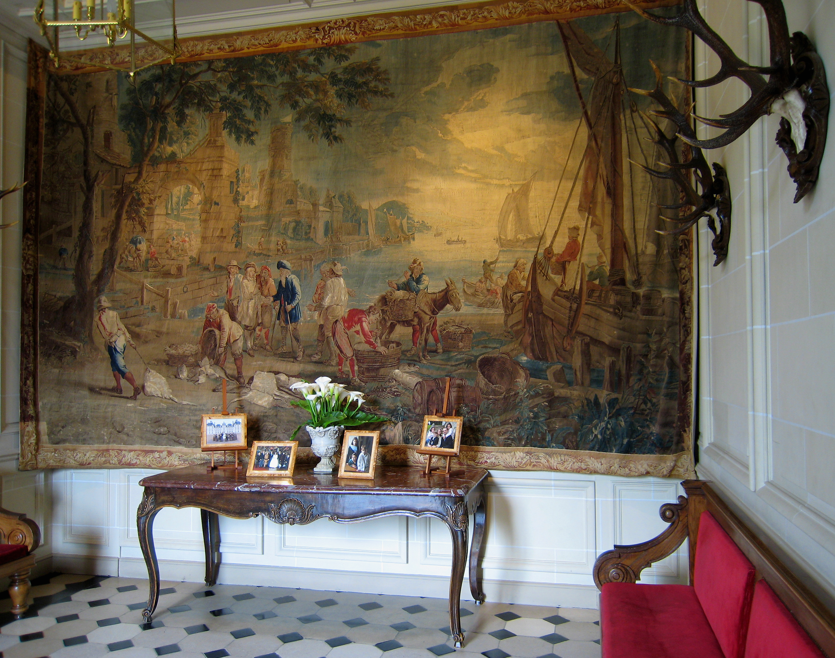 Fishermen coming back